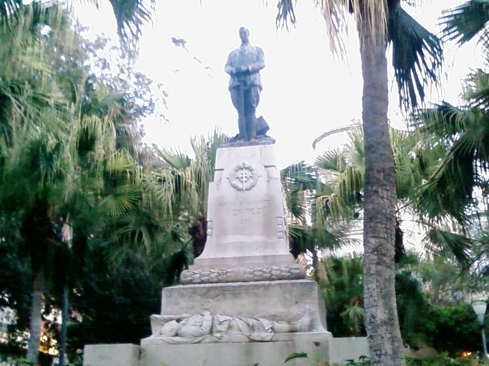 Monument to the Commander Julio Benítez and to the Igueriben Heroes in Málaga, Spain